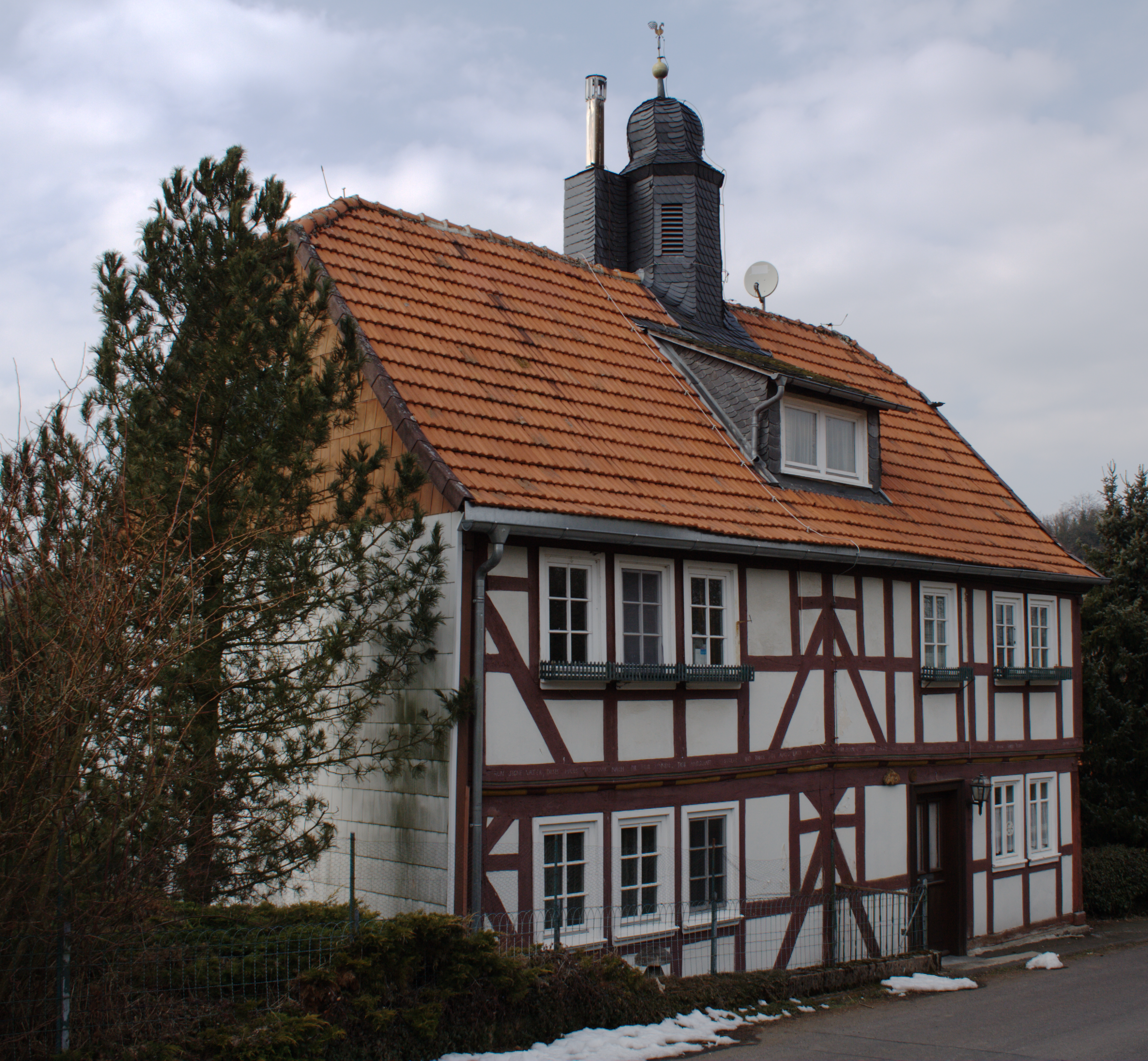 Half-timbered building (former school) in Zahmen Am Schulberg 5, Grebenhain, Hesse, Germany